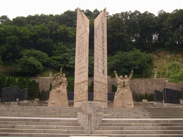 航空烈士公墓 牌坊 2004年6月5日撮影 撮影者:権作Monument to the Aviator Martyrs in WWII, Nanjing 参照：